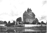 Bjernede Church in Zealand before the restoration carried out by H.B. Storck 1890-92.